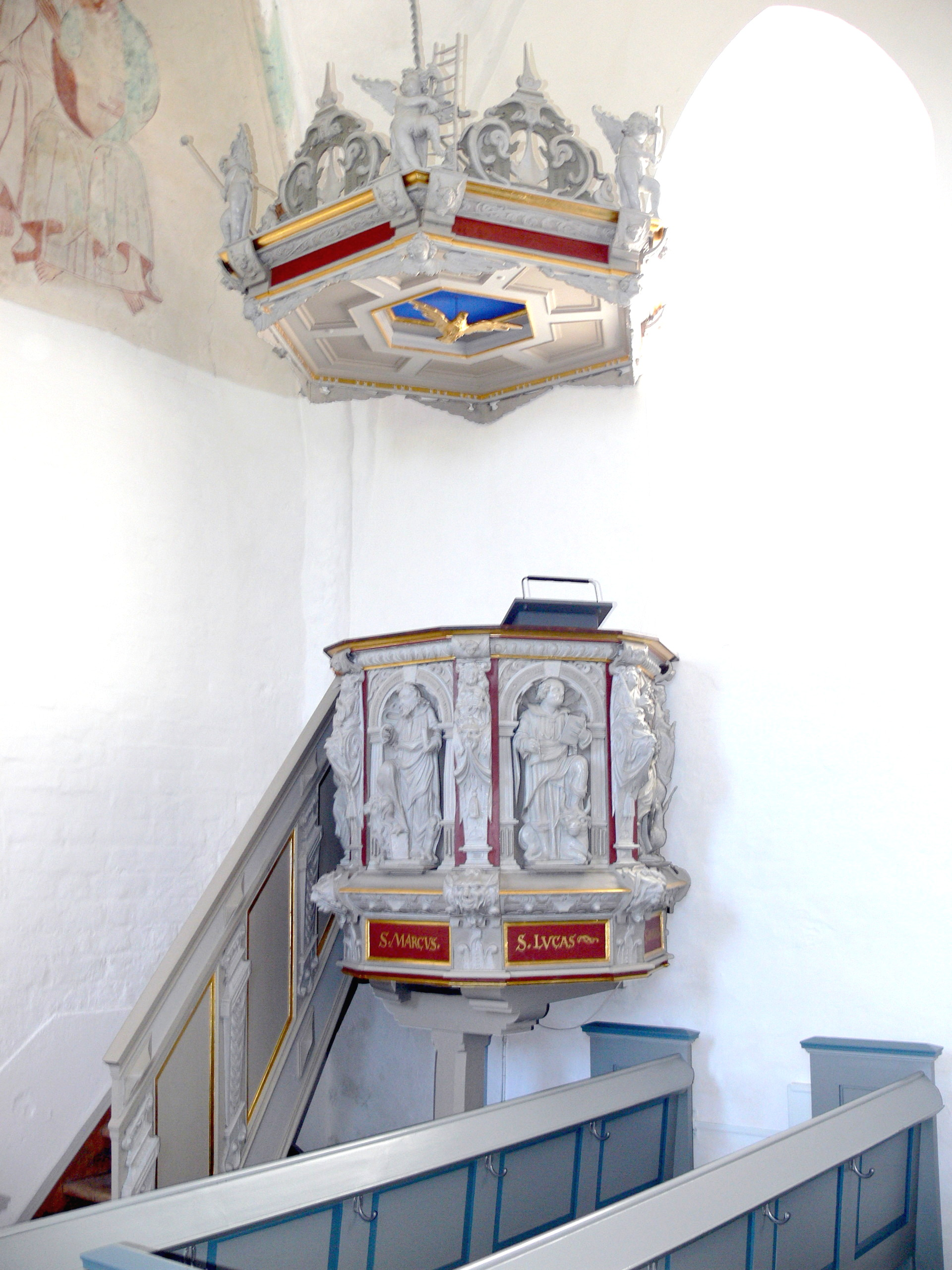 Nørre Alslev Kirke (church) in Denmark. Pulpit by Jørgen Ringnis from 1643.